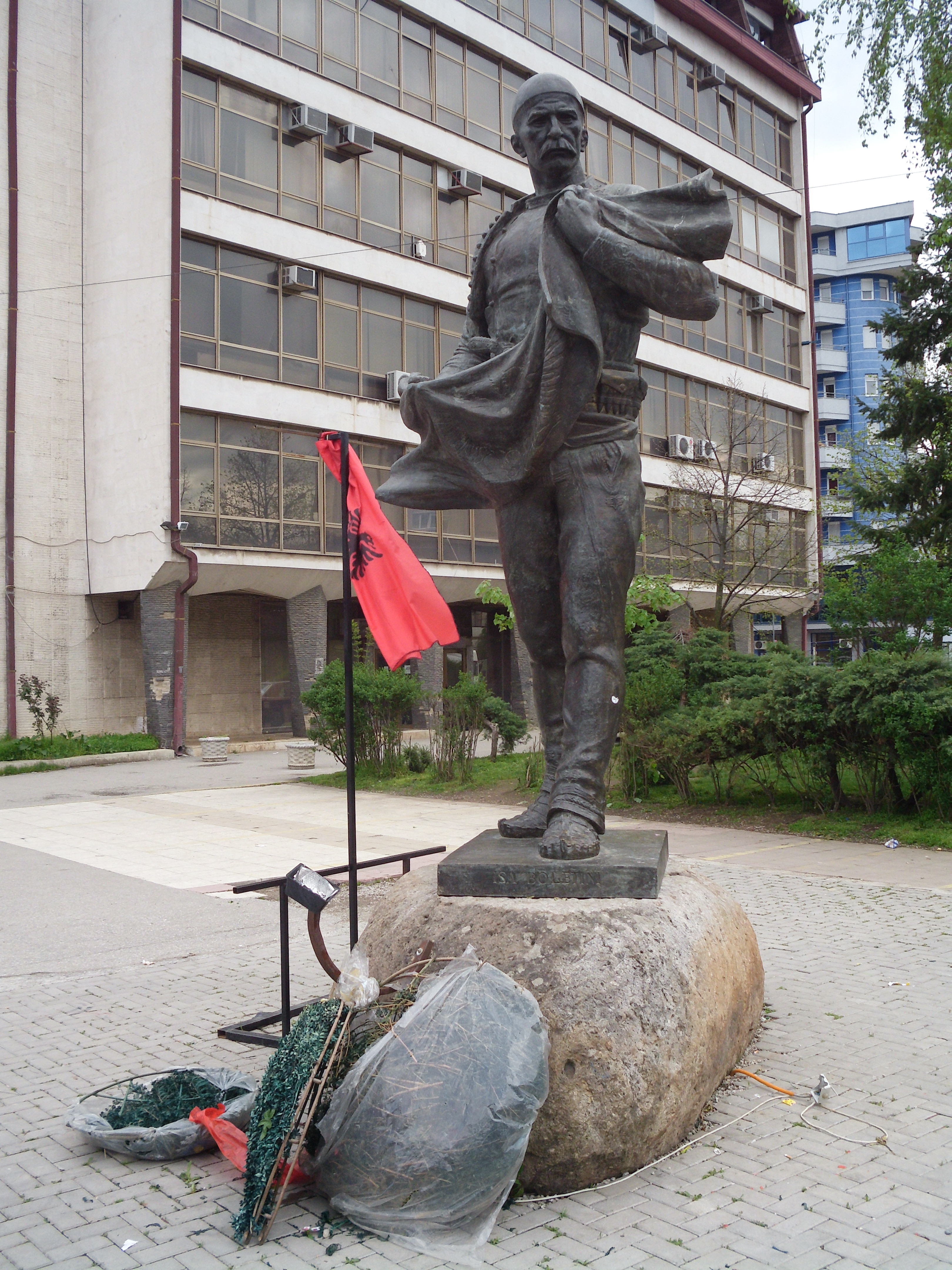 A statue of Isa Boletini (1864-1916), Albanian resistance fighter and politician, in the center of Mitrovica in Kosovo. He was born in a nearby village.